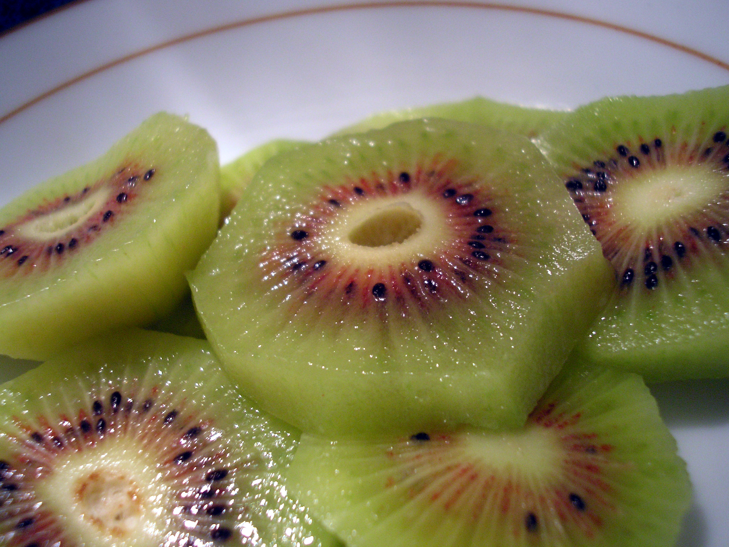 Red kiwifruit slices in a bowl.